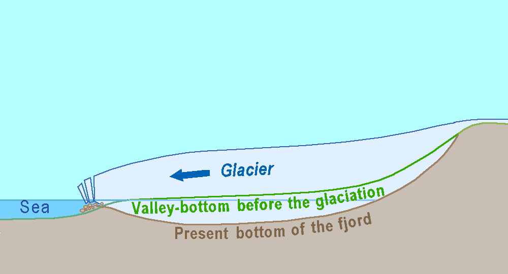 Geological genesis of a fjord